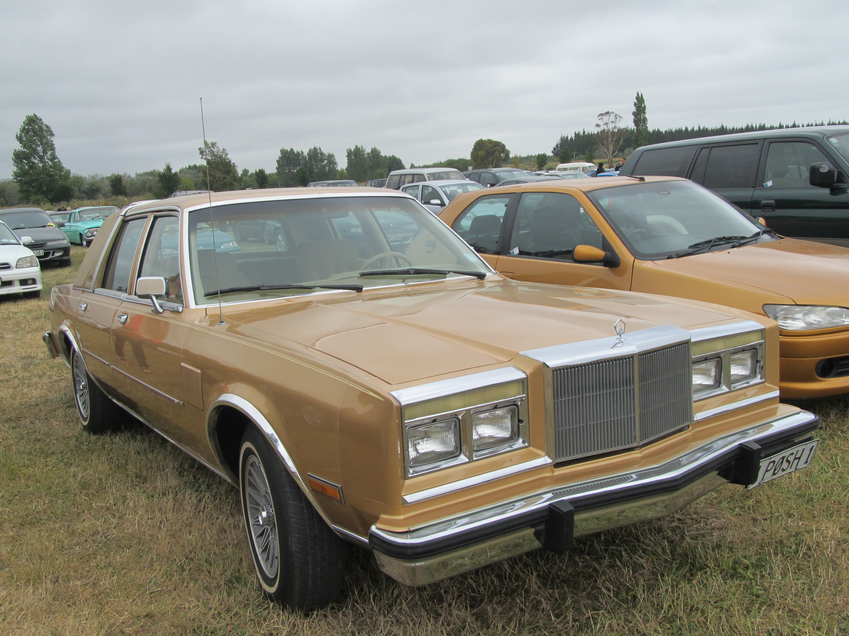 I knew this was a Chrysler product but had to CarJam to confirm the model; I thought it might have been a Dodge Diplomat, but then remembered the Diplomat was a fairly basic vehicle popular with fleets and police. This Fifth Avenue is clearly quite an upmarket model. Not an American import commonly seen here at all. This was imported from the US in 2006, but not registered until 2011.